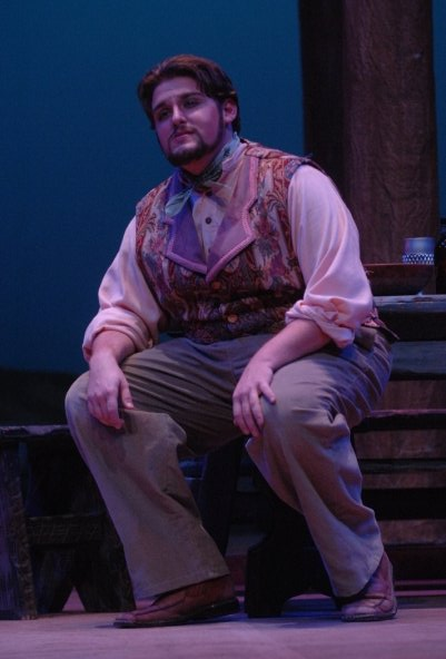 Casey Candebat as Nemorino in Loyola University New Orleans' L'elisir d'amore (2009)